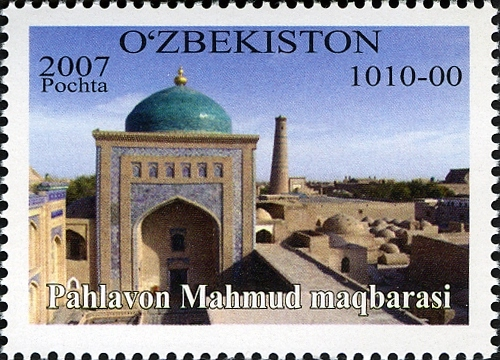 Stamps of Uzbekistan, 2007